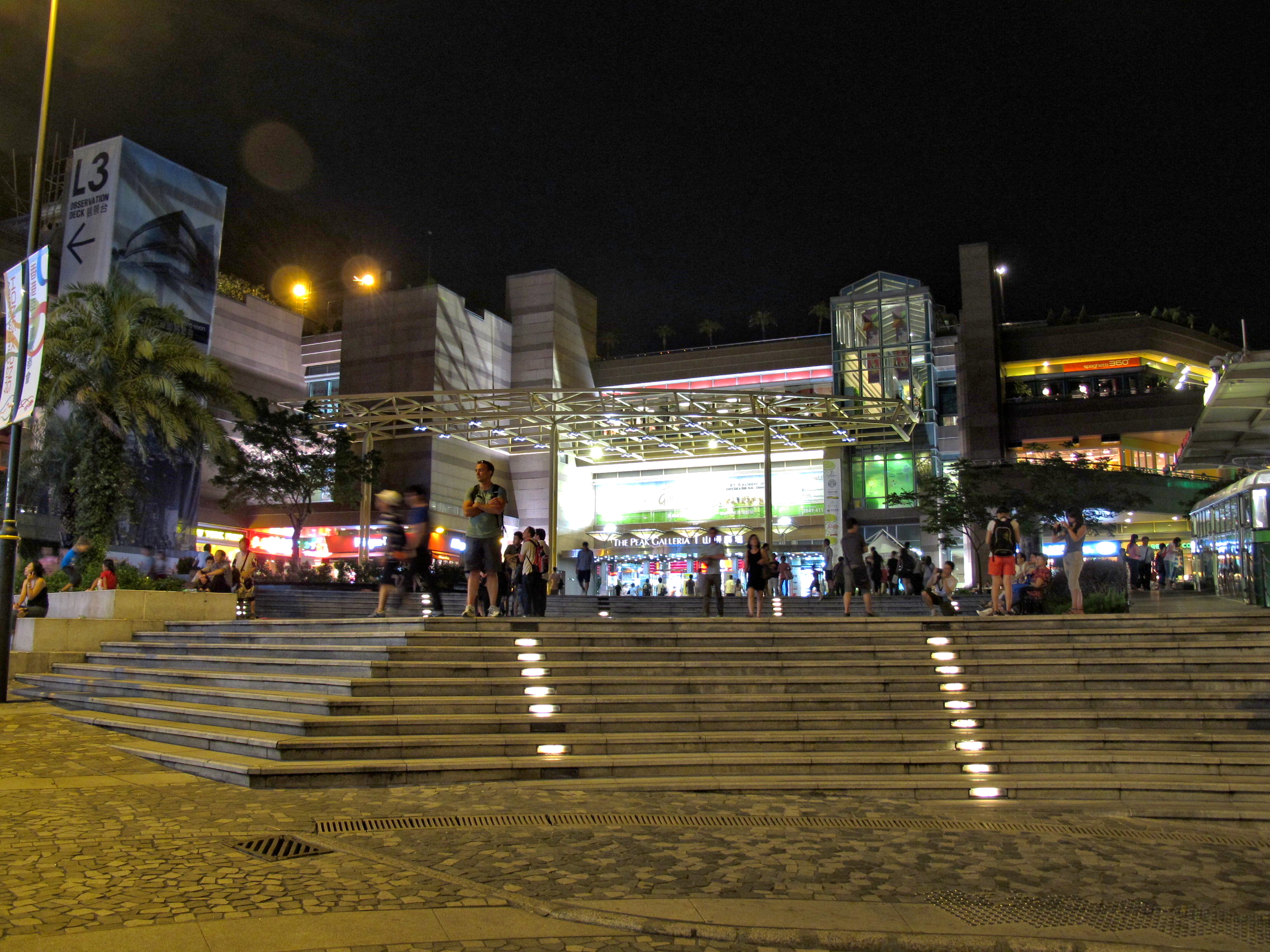 The Peak Galleria 山頂廣場